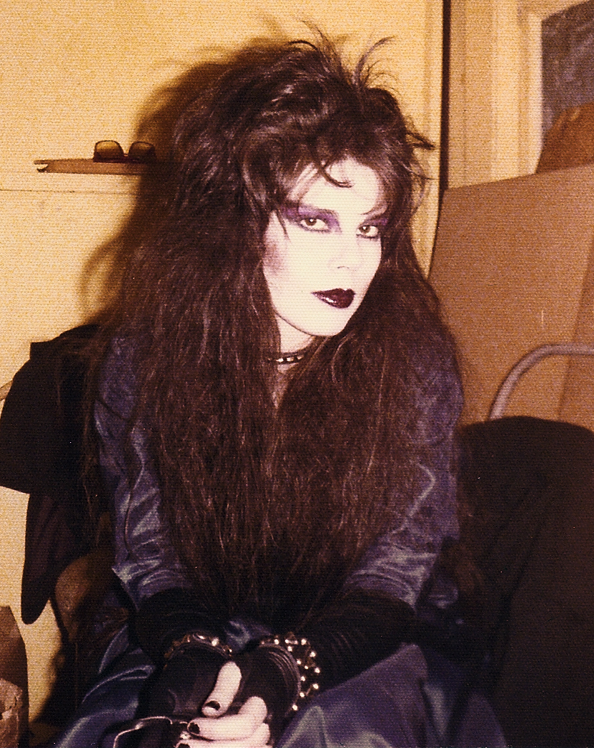 Pat Bag in 1977 or early 1978, soon to become Patricia Morrison.